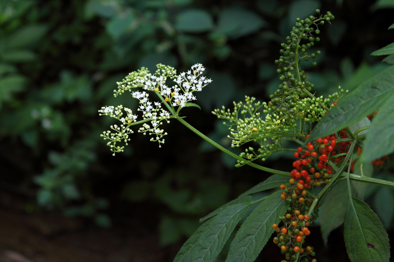 Sambucus chinensis, in Mount Ling, Shangrao County, Jiangxi, China, with elevation about 600m, wild.